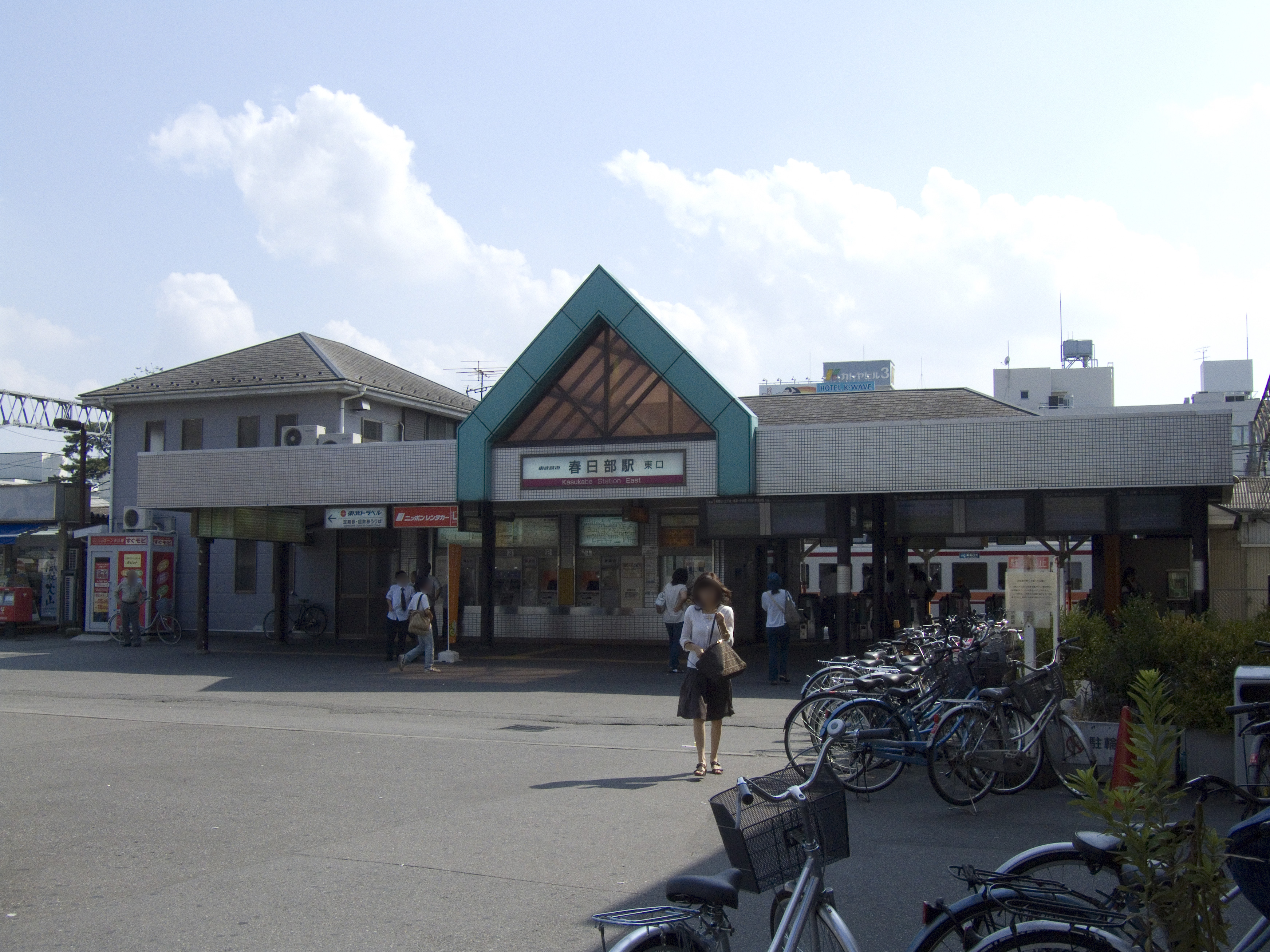 Tobu Railway Kasukabe Station east side